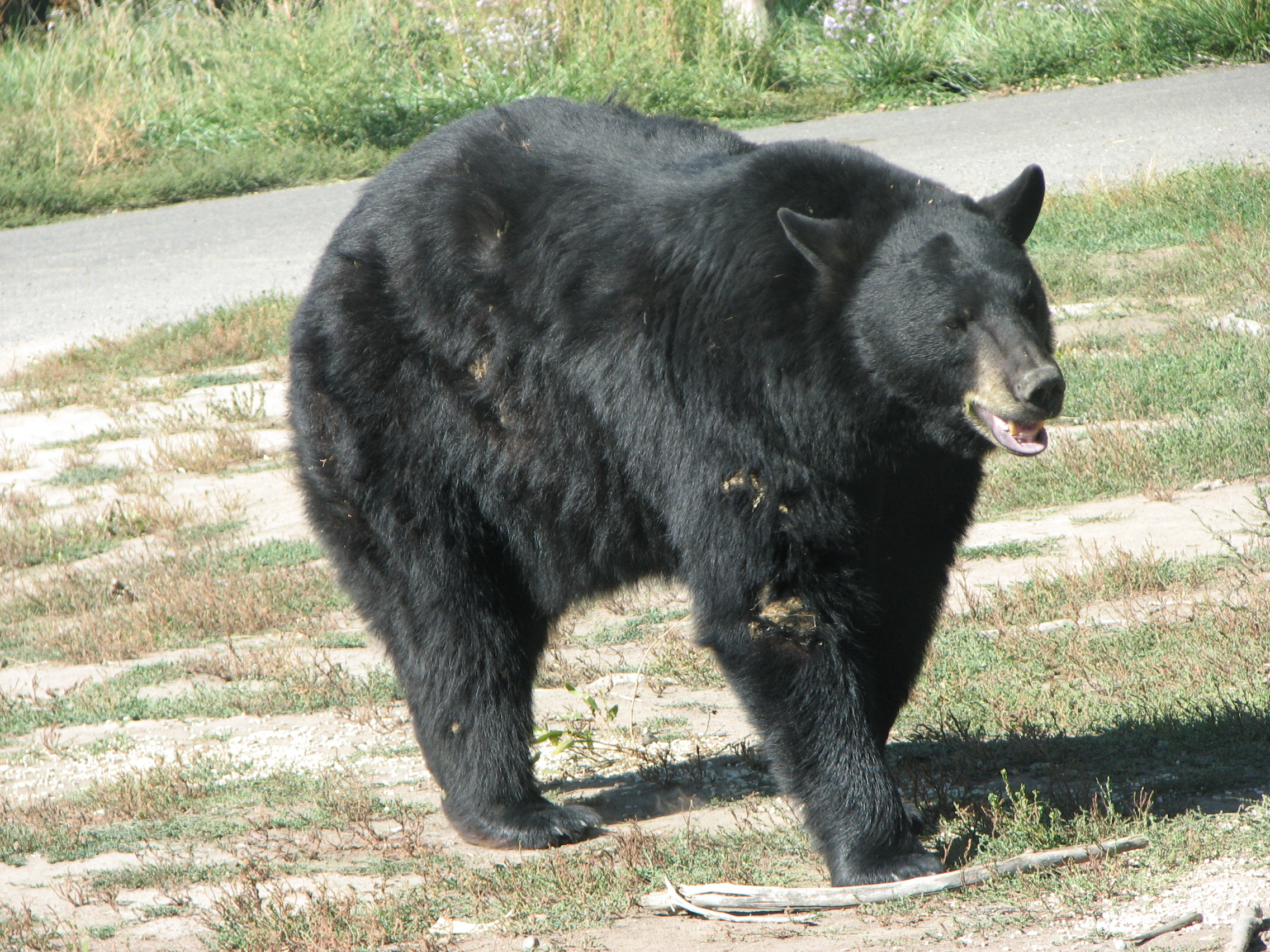 American Black Bear in Yellowstone Bear World, Idaho